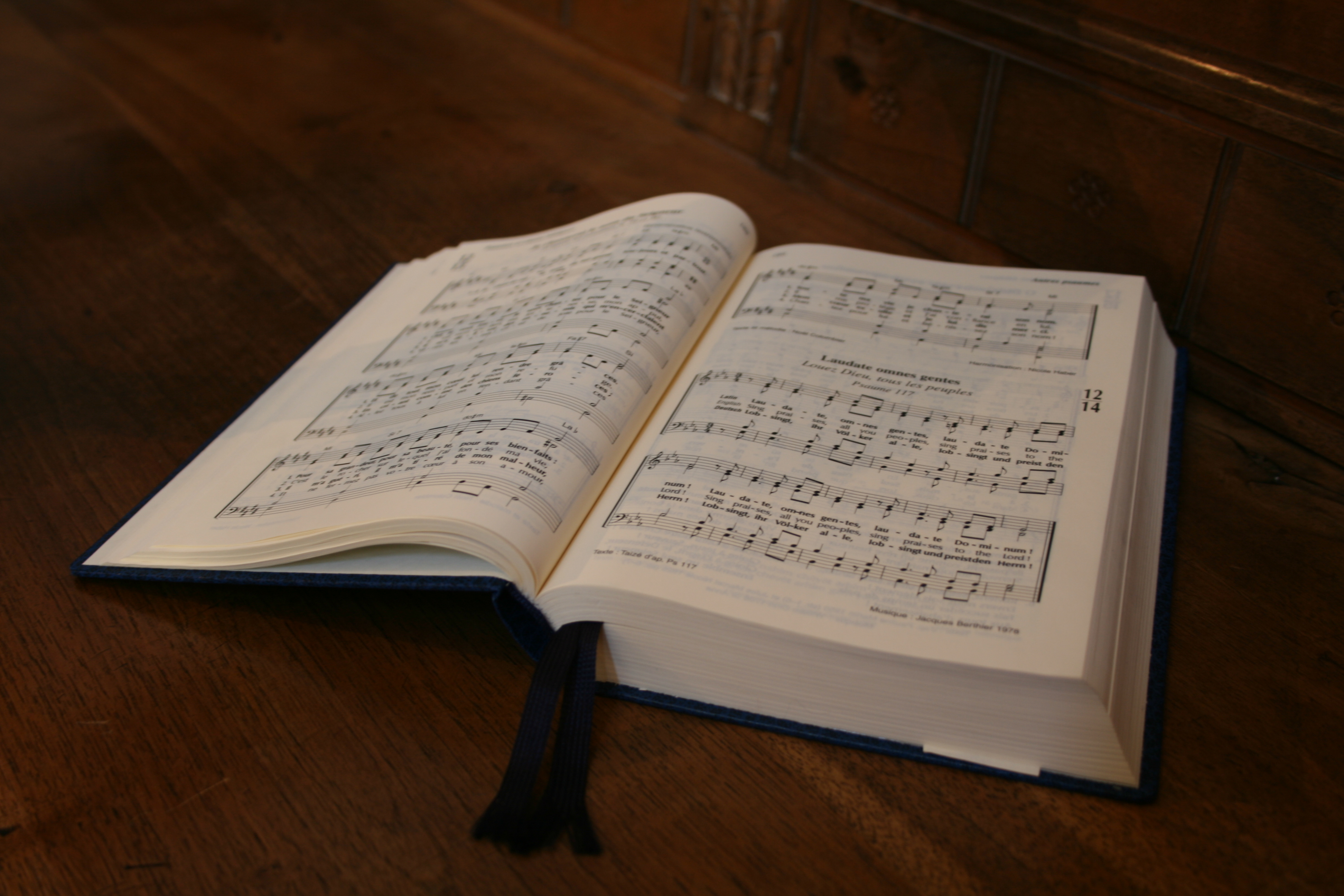 Lausanne - Switzerland